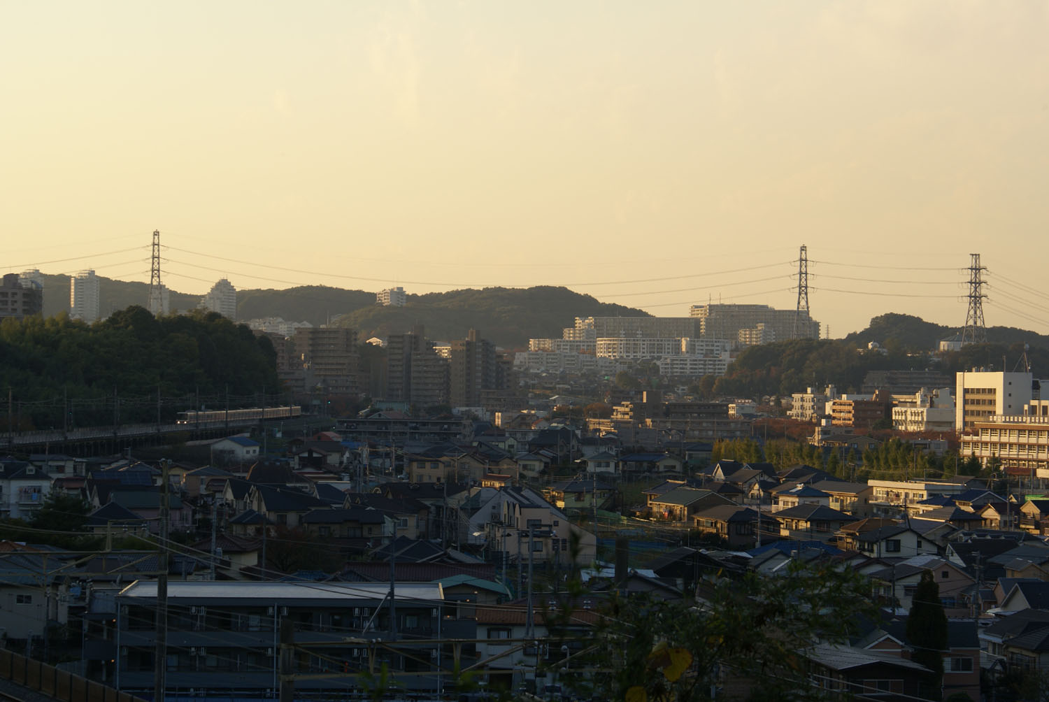 Landscape of Inagi, Tokyo